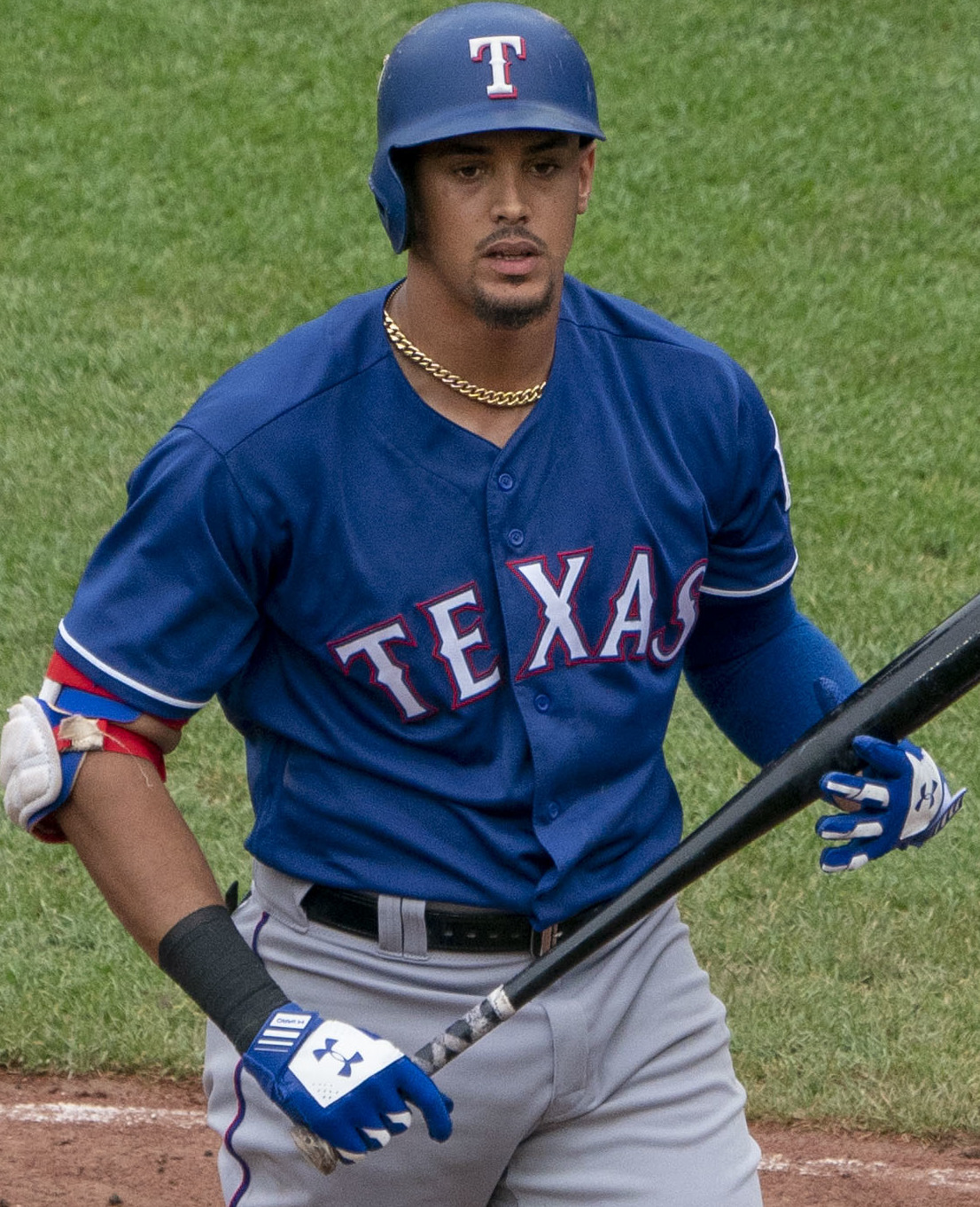 Rangers at Orioles 7/15/18